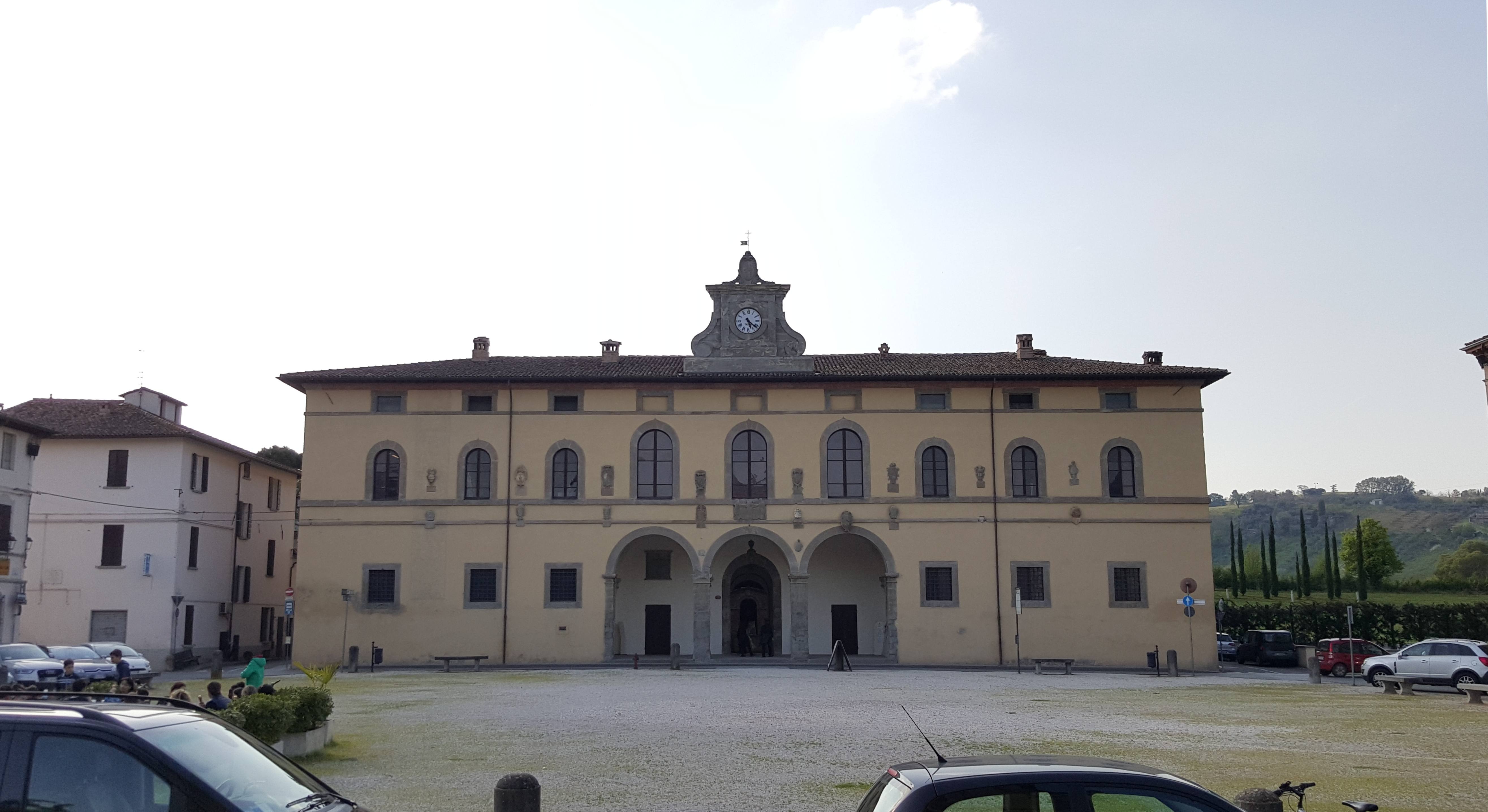 This is a photo of a monument which is part of cultural heritage of Italy.